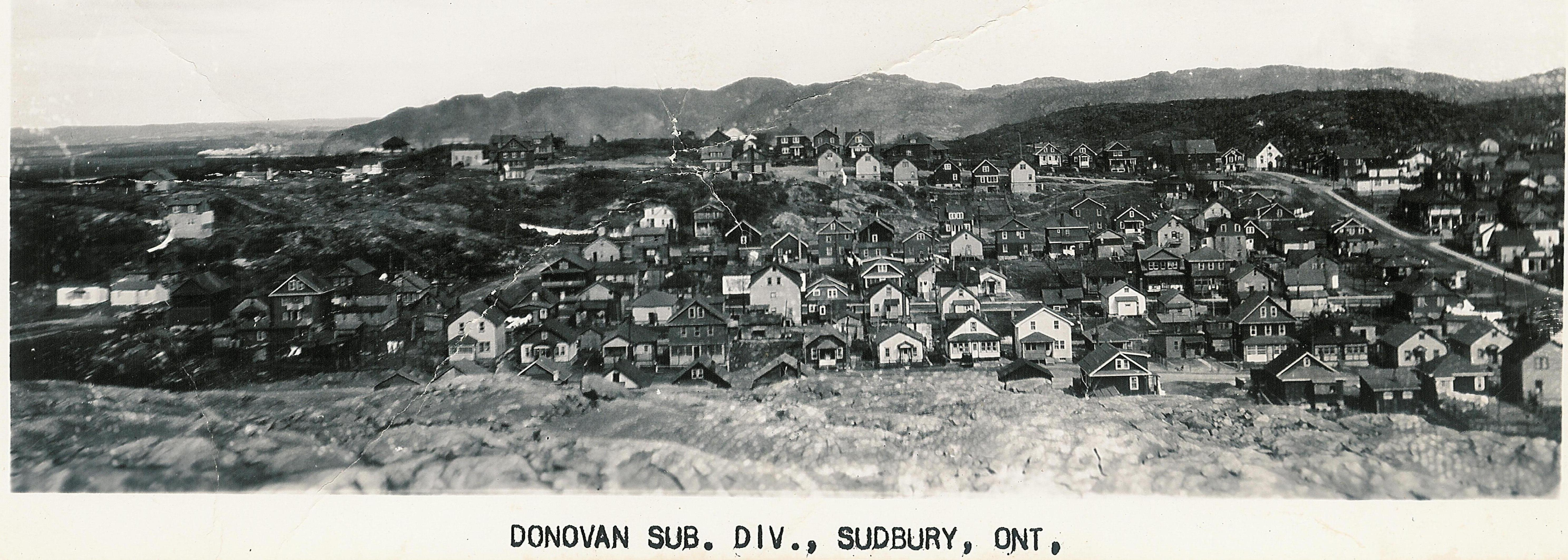 Donovan Sub Division